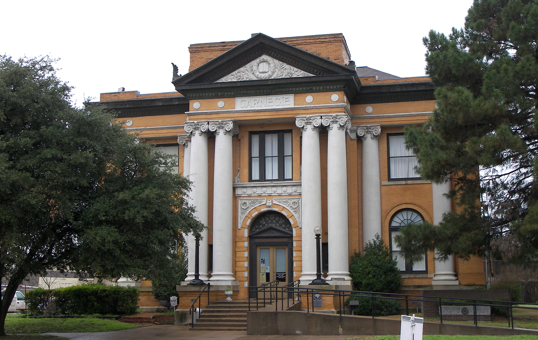 The Cleburne Carnegie Library was built in 1904 at 201 N. Caddo St, Cleburne, Texas, United States. Industrialist Andrew S. Carnegie provided funds for the building. The Beaux-Arts style building was listed on the National Register of Historic Places on December 12, 1976 and designated a Recorded Texas Historic Landmark in 1981.